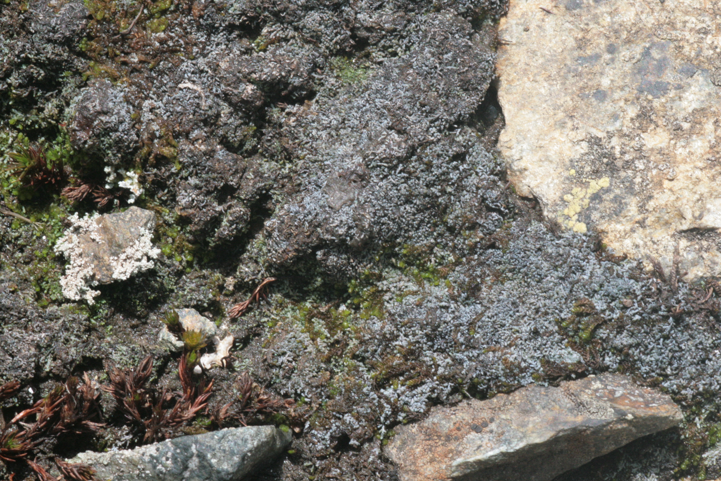 Anthelia juratzkana